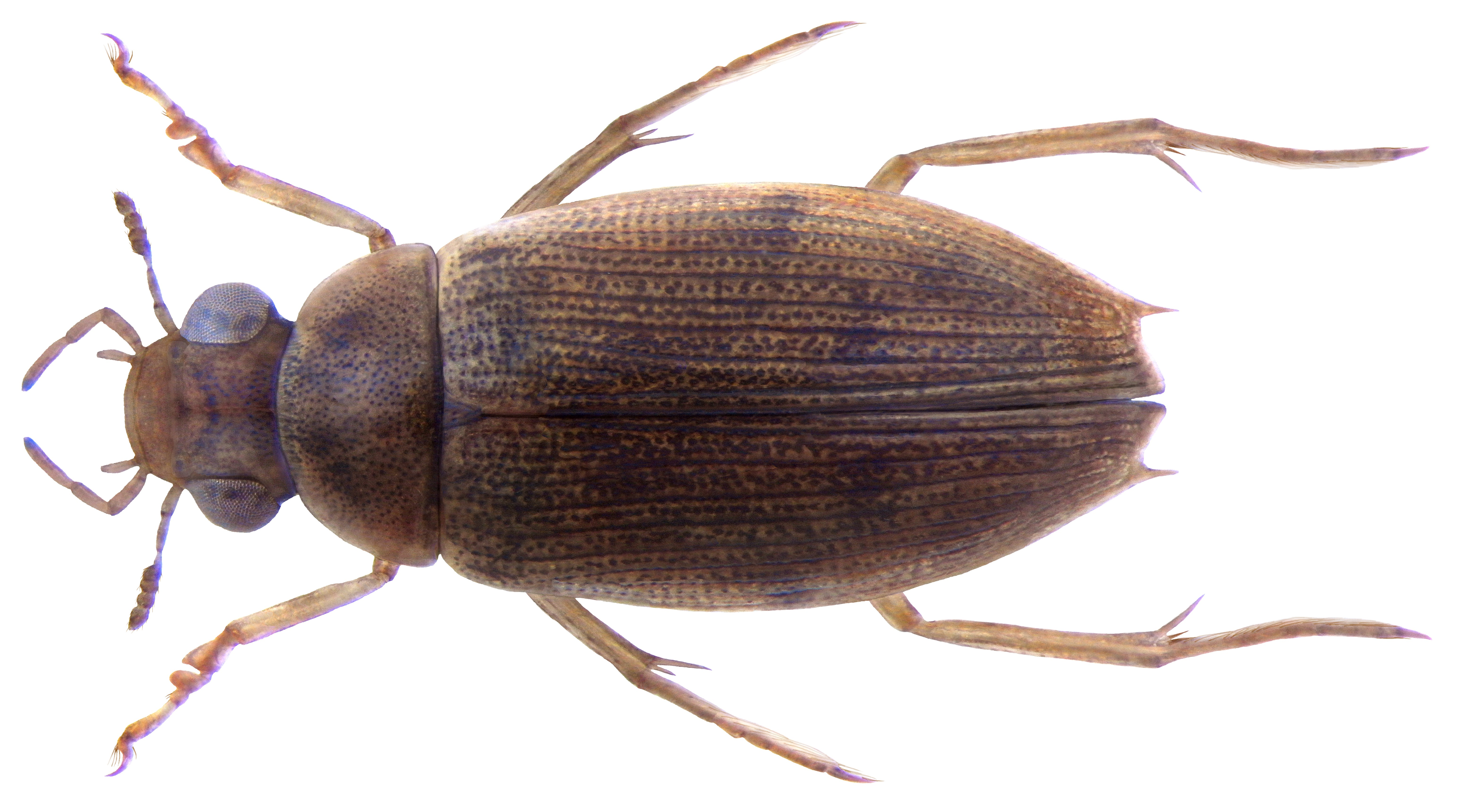 Dorsal view of an adult Berosus indicus